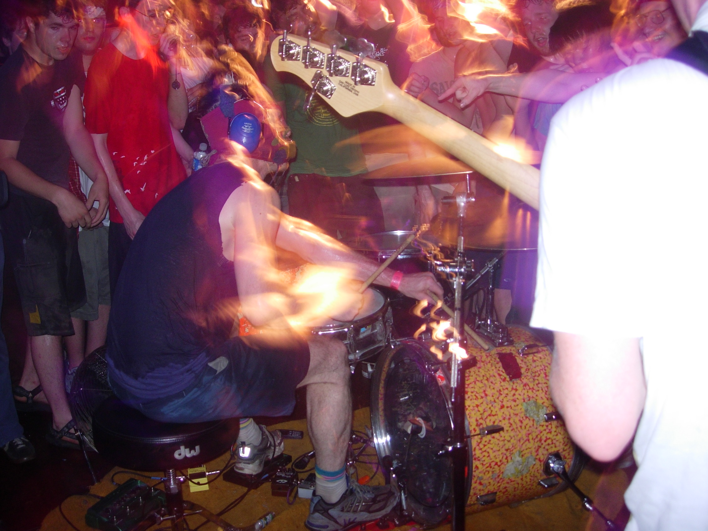 I took this photo at a Lightning Bolt show three days ago.